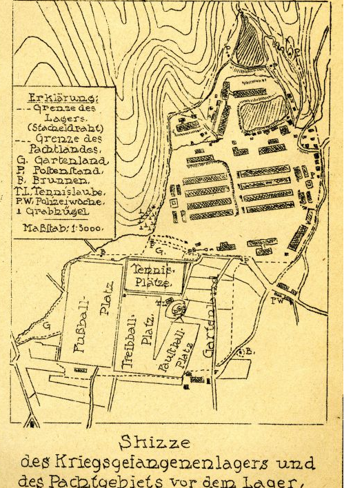 Map (approx scale 1:3000) of the POW camp for Germans in Bando Japan, which existed 1917-20.